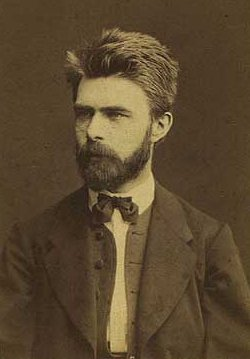 Søren Ludvig Tuxen (1850-1919)